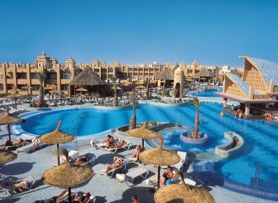 Riu Funana in Cape Verde